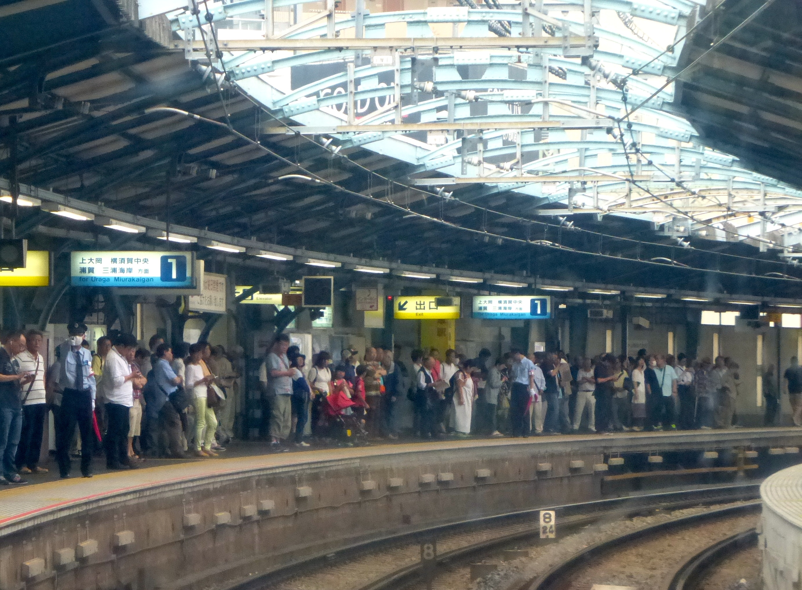 Hinodechō Station platform (日ノ出町駅のホーム)